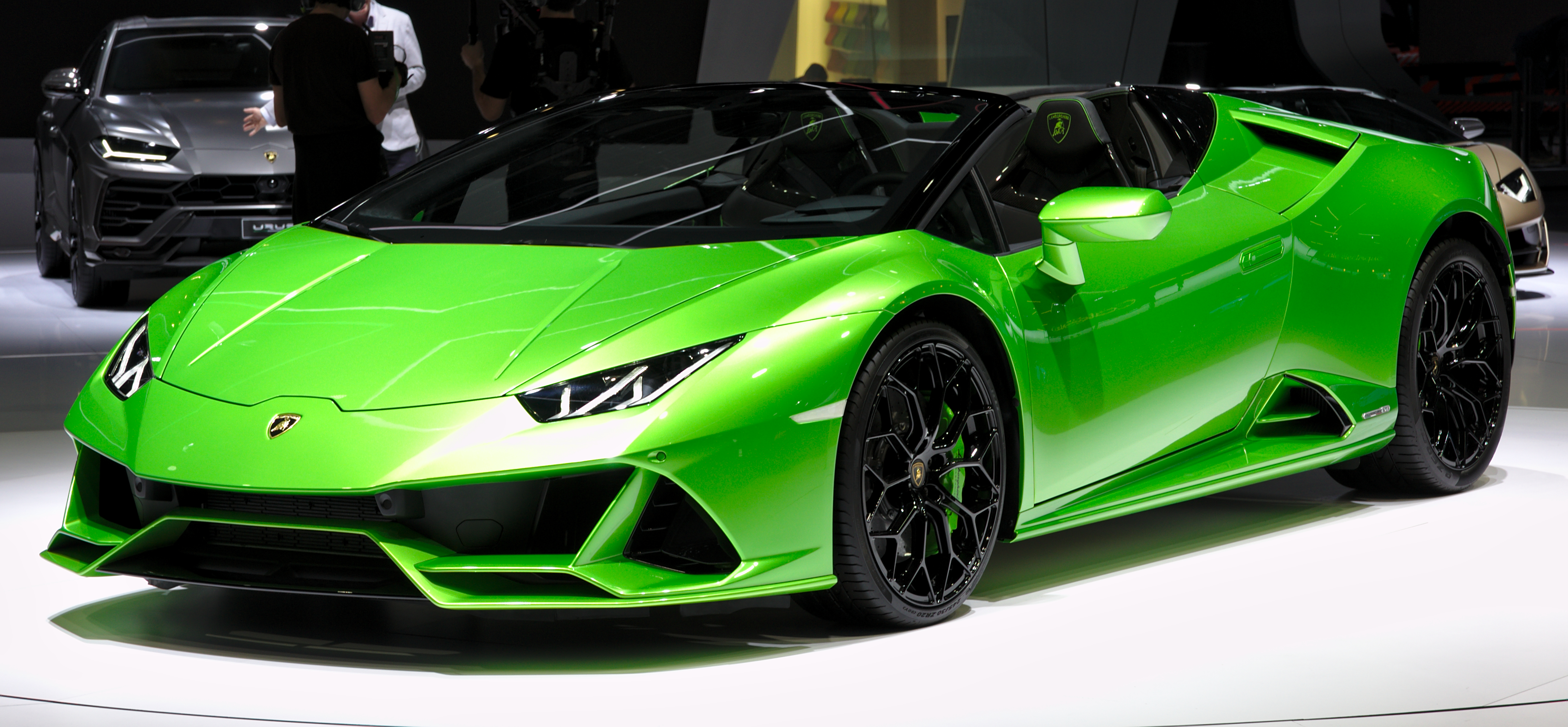 Lamborghini Huracán Evo Spyder at Geneva Motor Show 2019